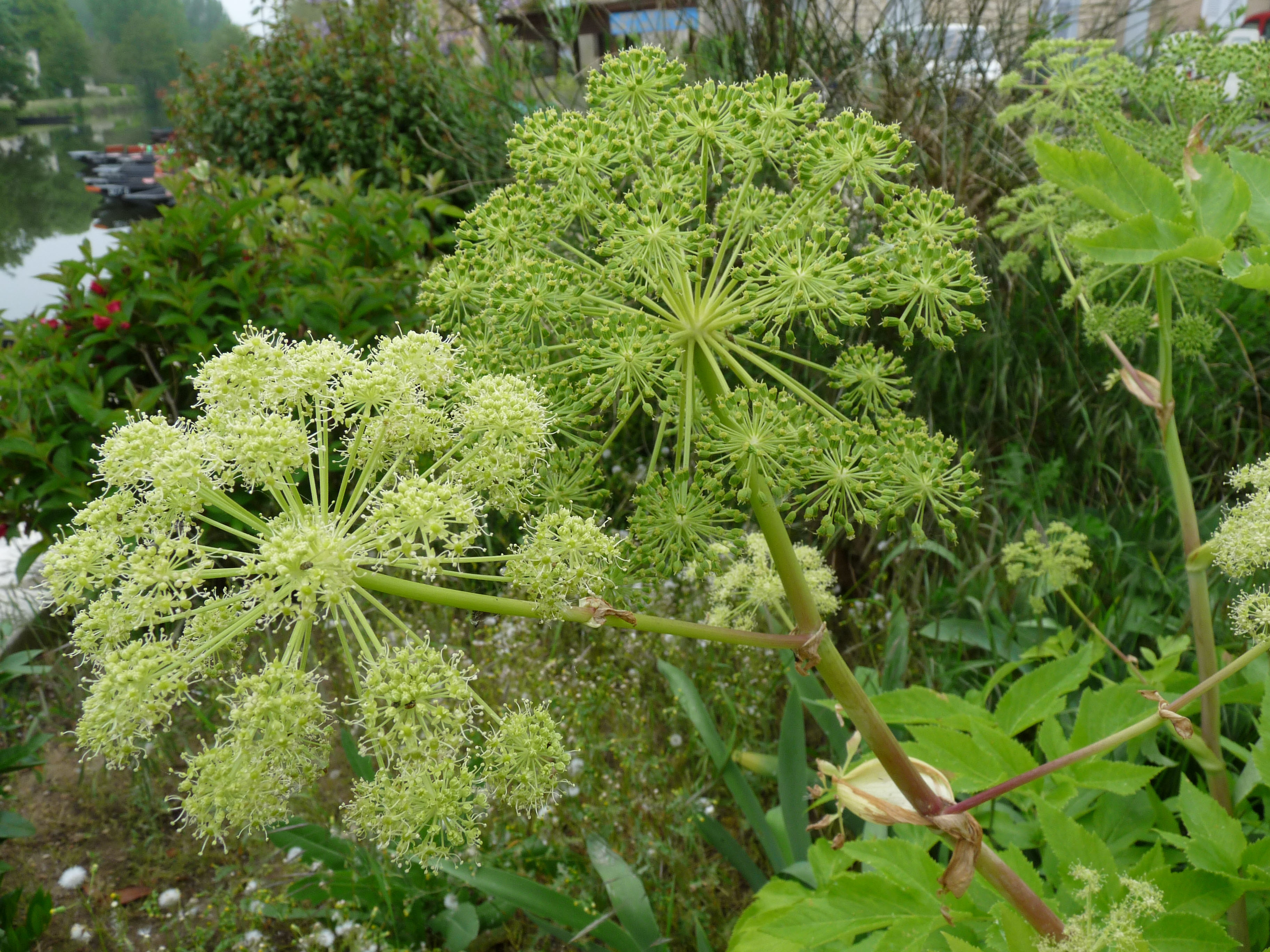 Angelica Archangelica in Coulon (Deux-Sèvres)